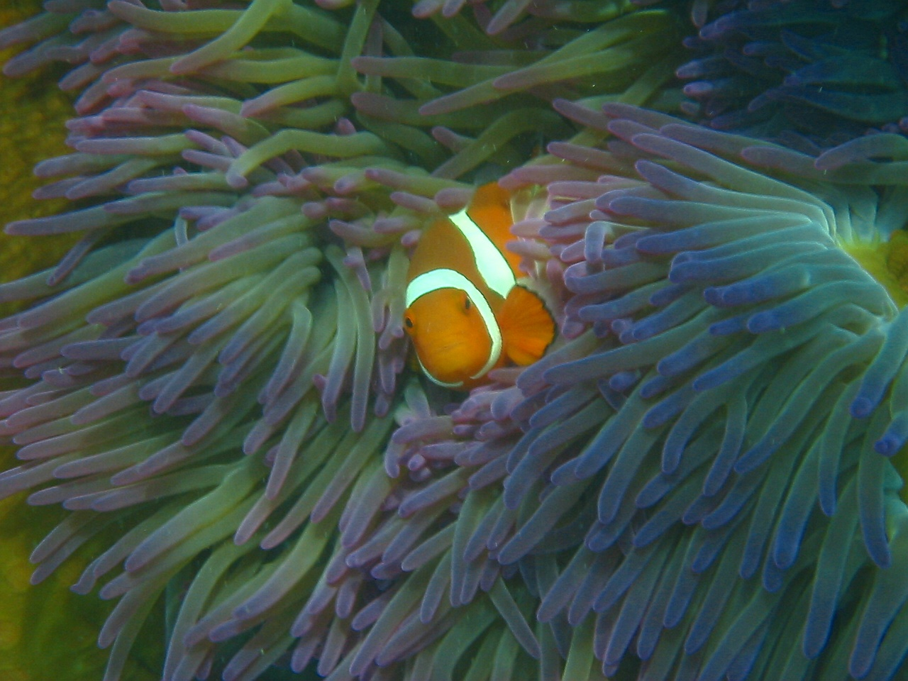 Amphiprion percula / Clownfish; Location: Welcome Bay, Fitzroy Island, Queensland, Australia